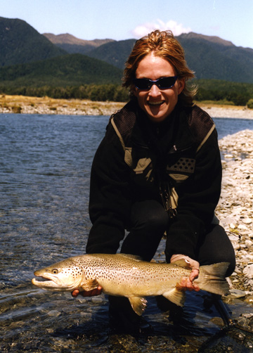 A.D. Maddox